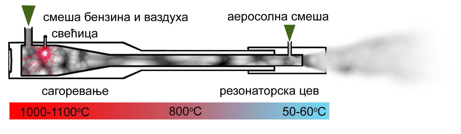 Thermal Fog Generator (scheme in Serbian)